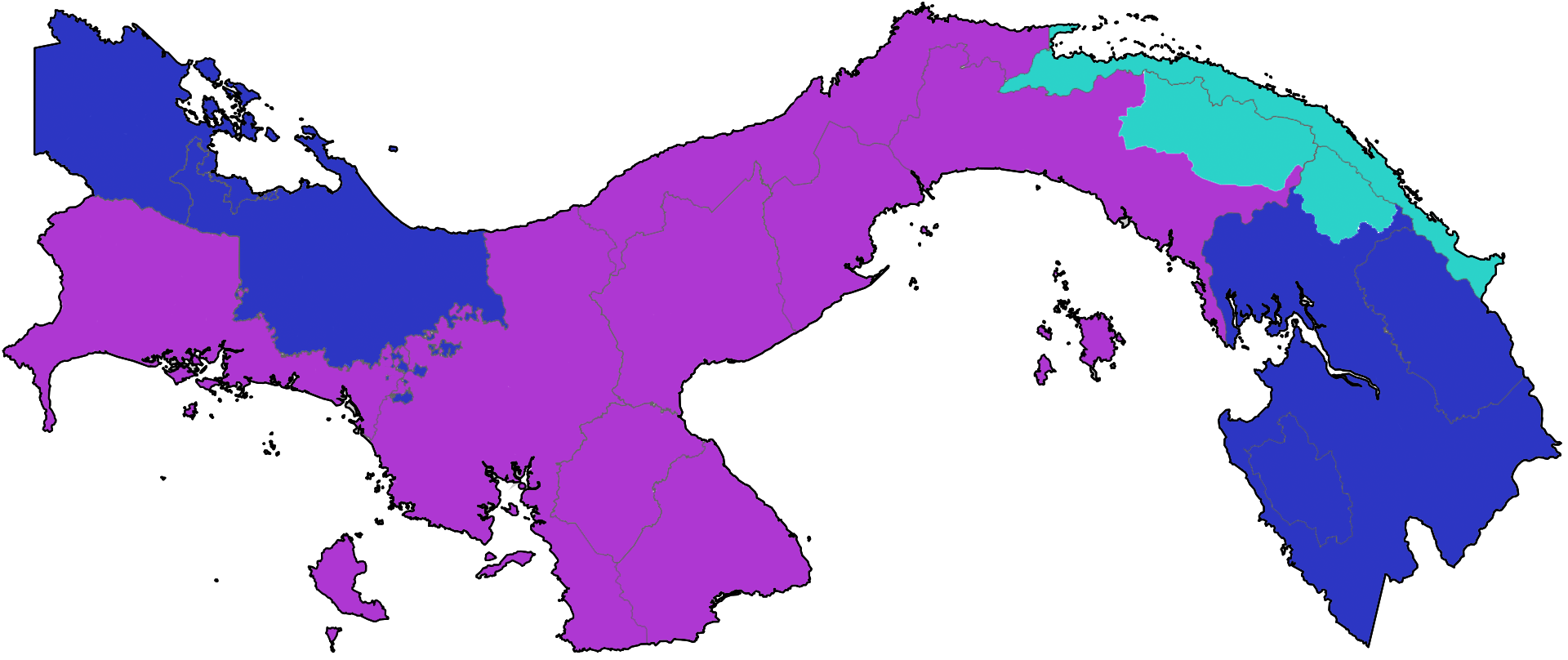 Elections, Republic of Panama, 2014